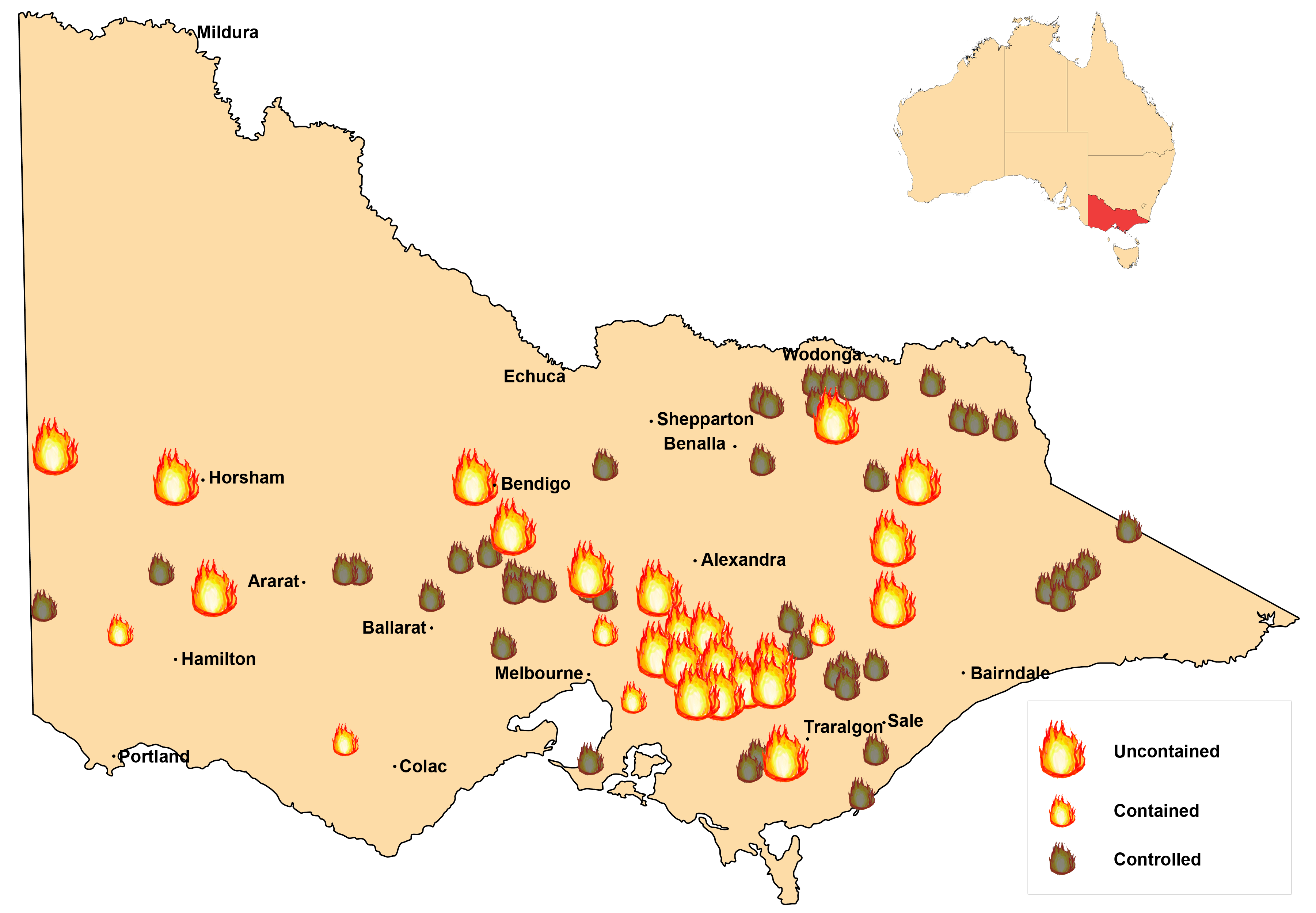 Map of the current bushfires (Based on data from the DSE at 9am 8 February 2009) burning in Victoria.